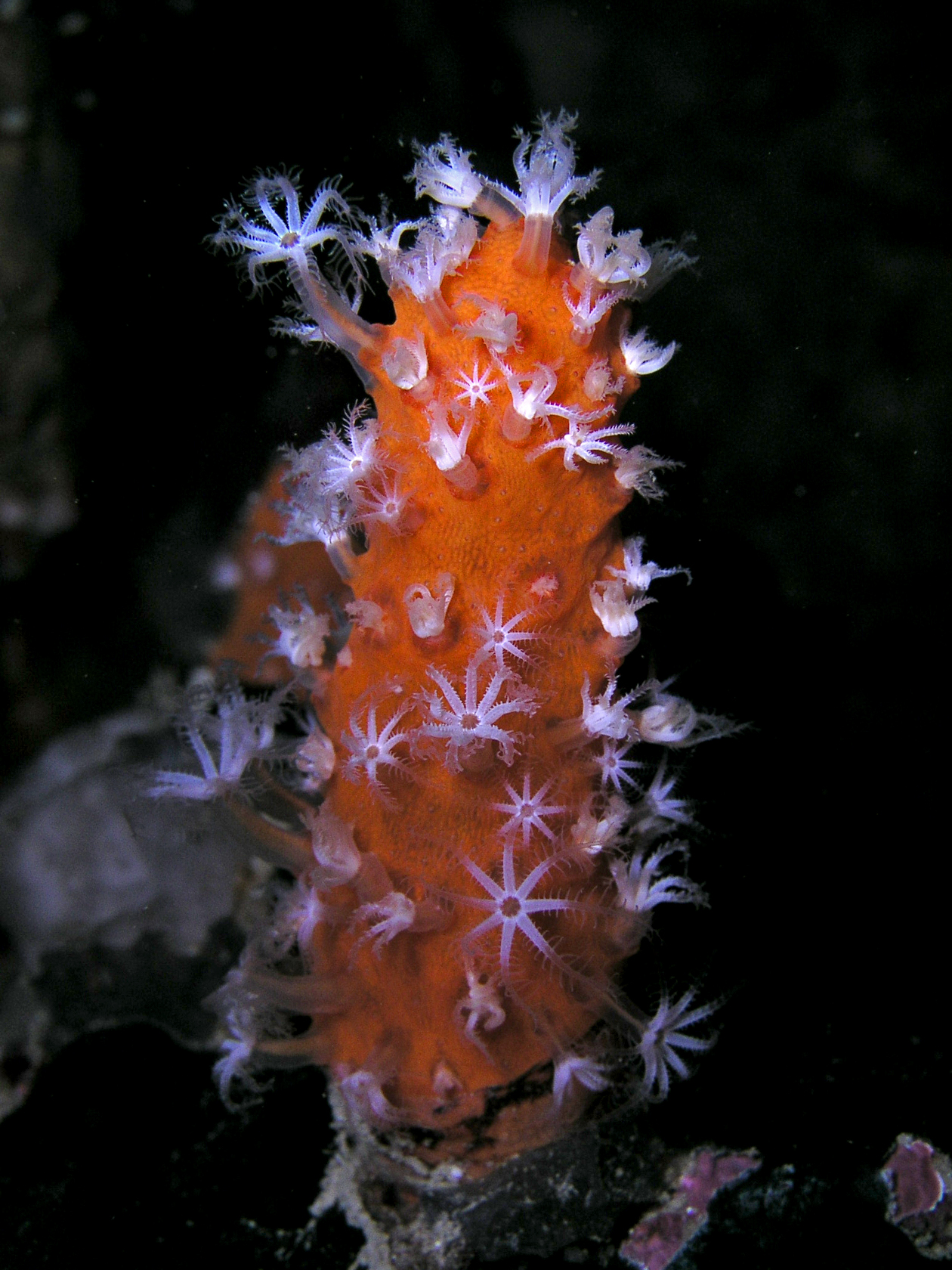 Minabea aldersladei (Syn. Paraminabea aldersladei) (Leather coral). This coral looks like an upside down carrot growing out of the substrate. Its striking white polyps are extended only at night to feed.